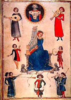 "King David, Lady Music and musicians". In manuscript "De institutione musica". Boetius.